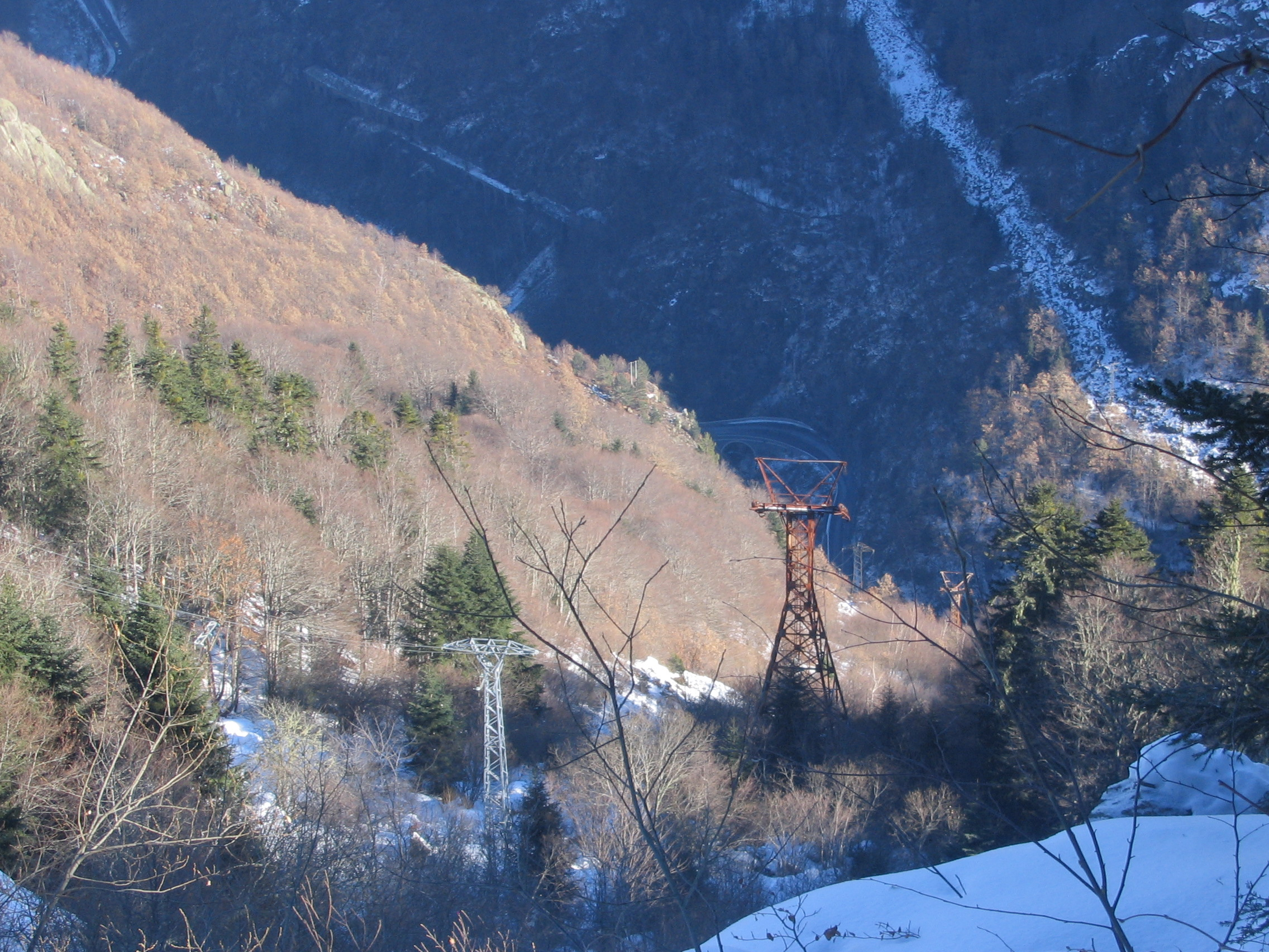 Abandoned cableway in Ax 3 Domaines